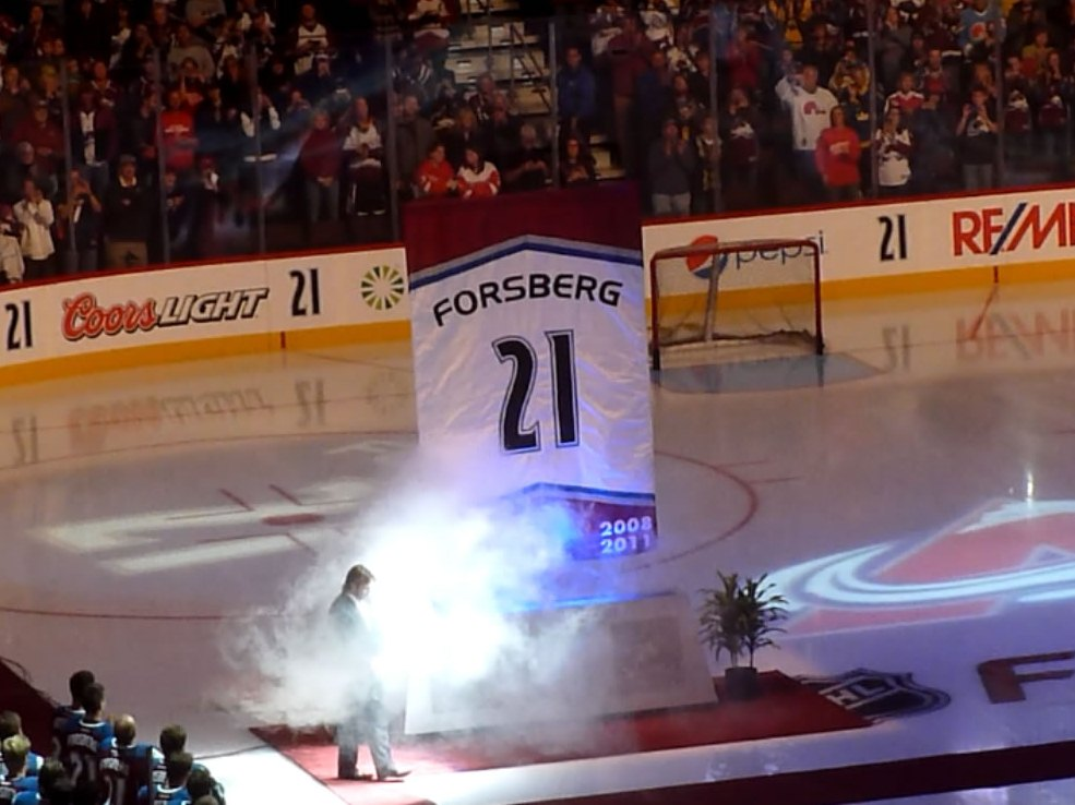 Peter Forsberg's jersey is retired by the Colorado Avalanche. Denver, Pepsi Center, 8th Oct 2011